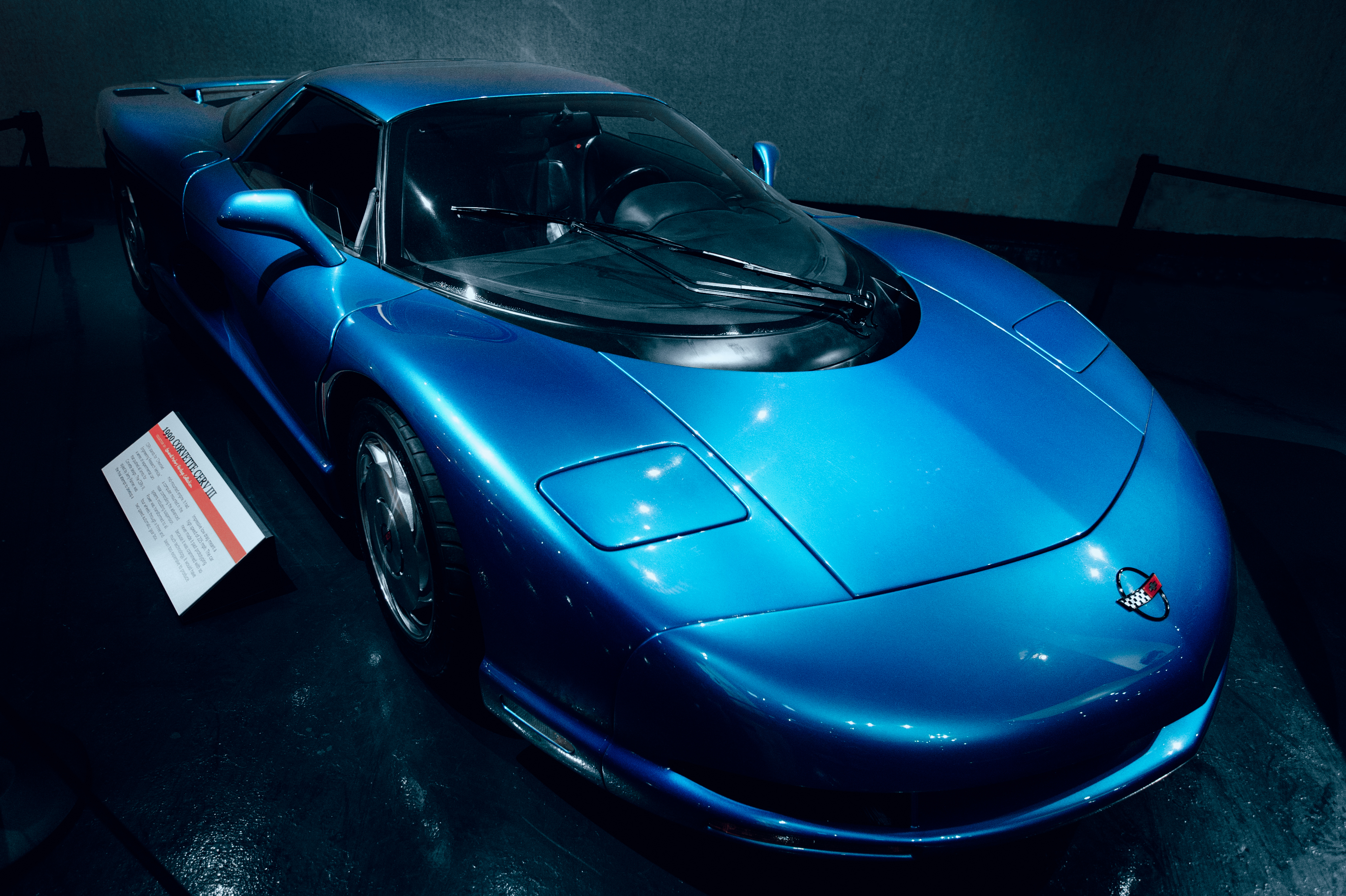 cool and icy to make the blue pop